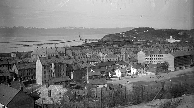 From a part in Trondheim, Norway, called Buran